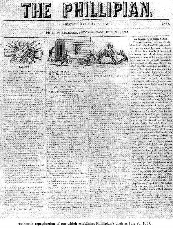 This image is believed to be the first publication of a high school student newspaper in the United States, in 1857. The paper was titled 'The Phillipian' and was published by the students of Phillips Academy, Andover. Many Andover graduates went on to fight and die in the then-upcoming American Civil War.